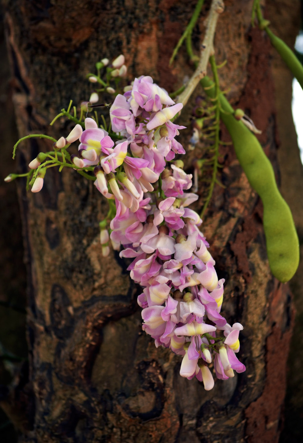 ശീമക്കൊന്ന പൂവ്